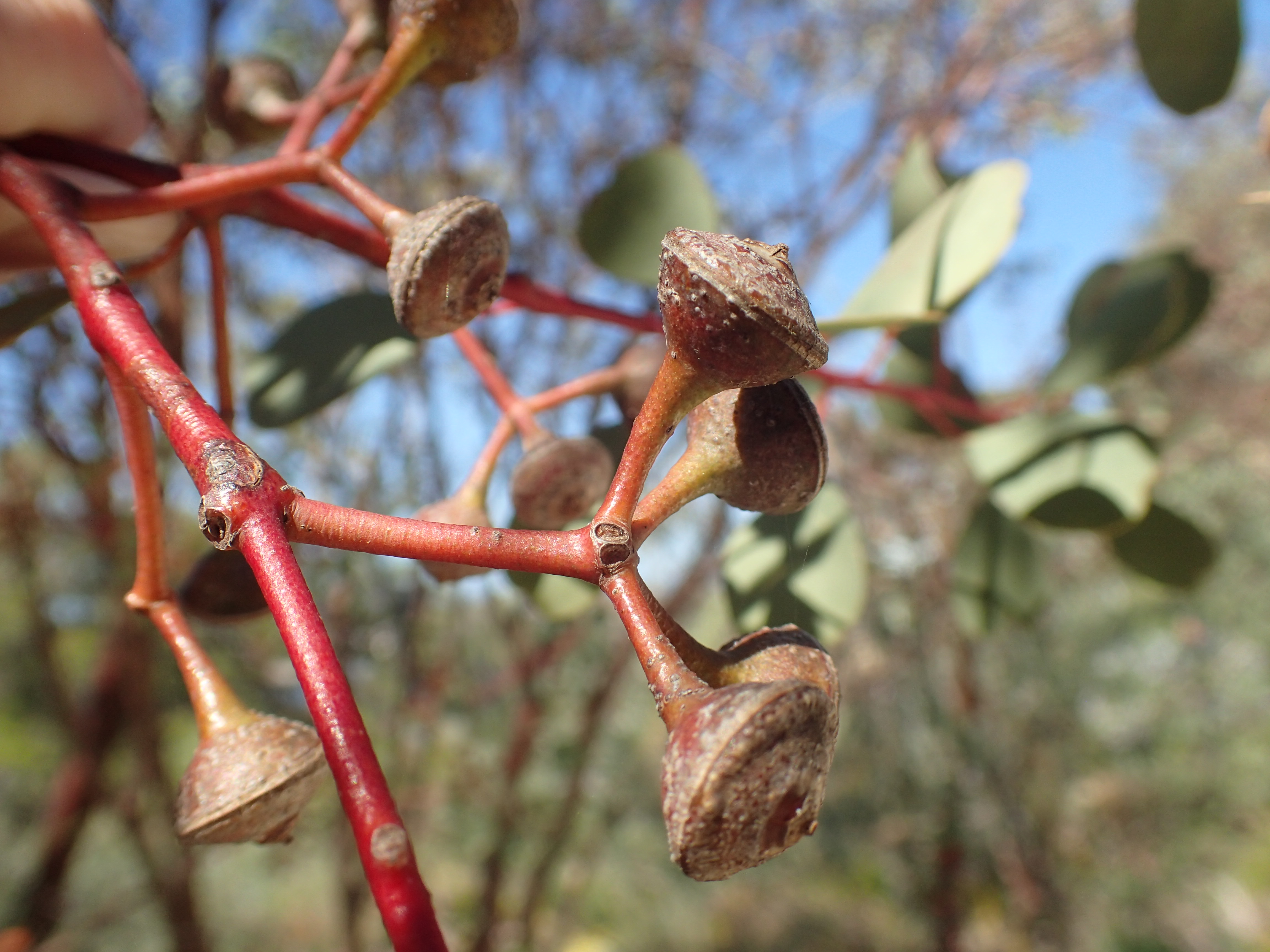 Fruit of Eucalyptus websteriana in Kings Park, Perth